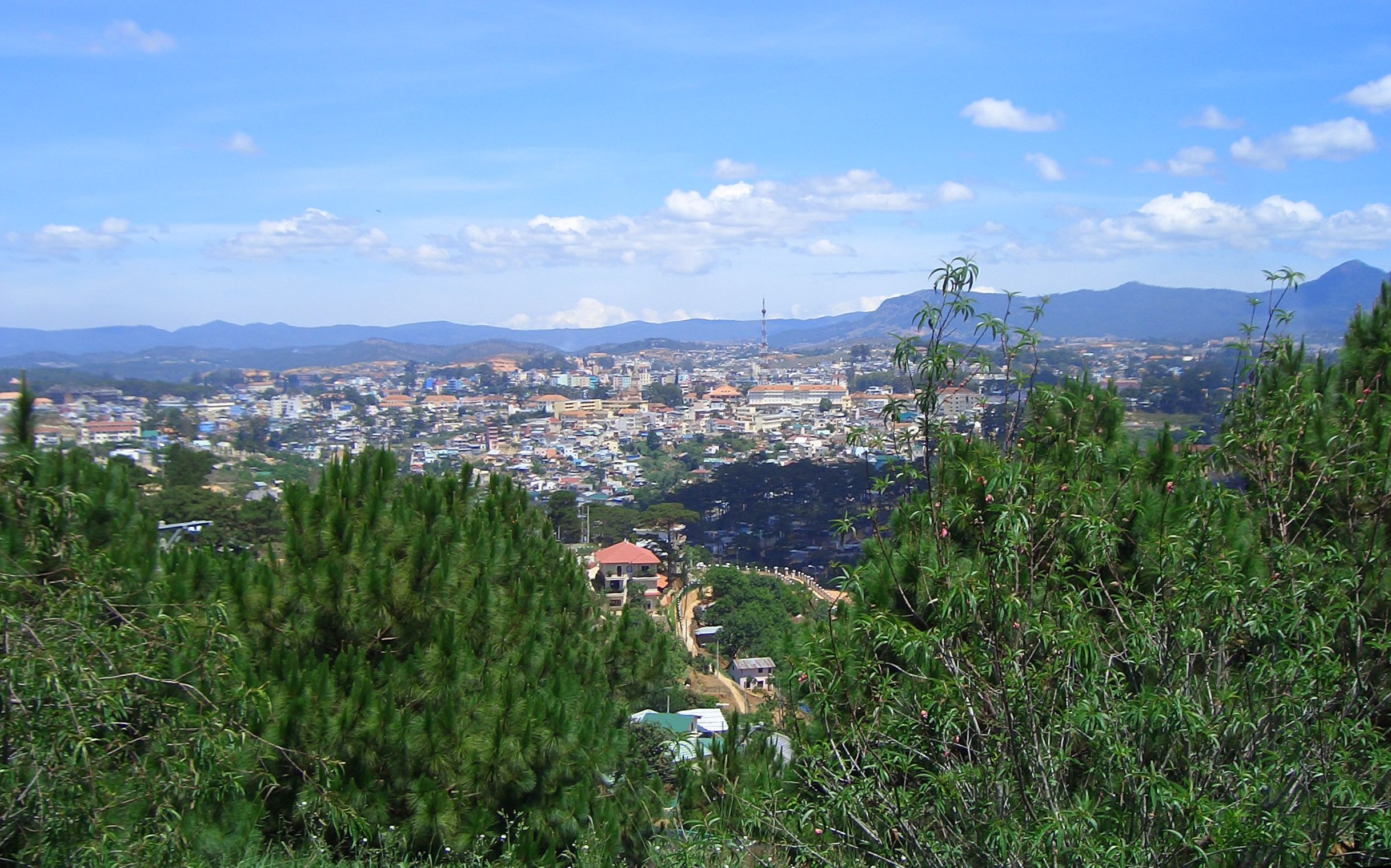 View of Da Lat, Vietnam.